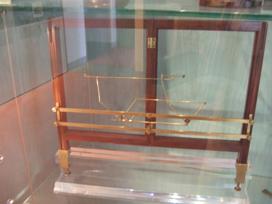 Perspectograph 18th C. Unsigned. Wood brass Museum de la Storia della Scienza - Florence- Toscane - Italie